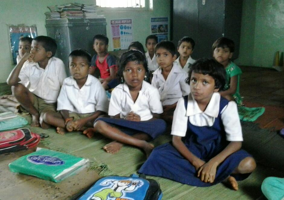 Picture taken at a state-run primary school in Karjat taluk of Raigad district of Maharashtra.